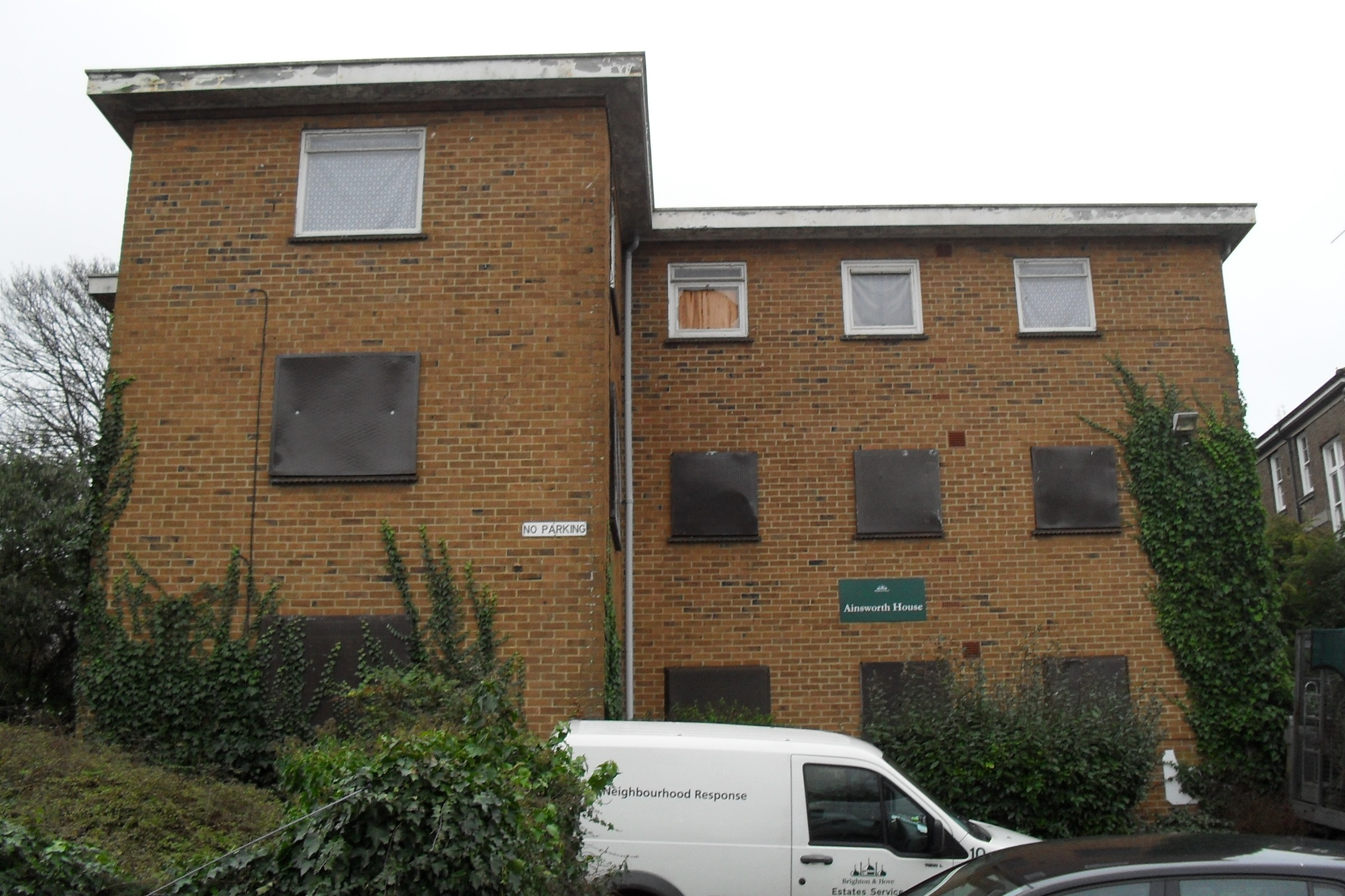 Ainsworth House, Wellington Road, Elm Grove, City of Brighton and Hove, England. This 1960s low-rise council block in the Elm Grove area of Brighton was demolished in favour of new council housing (Balchin Court)—the first new council housing in the city for 30 years.